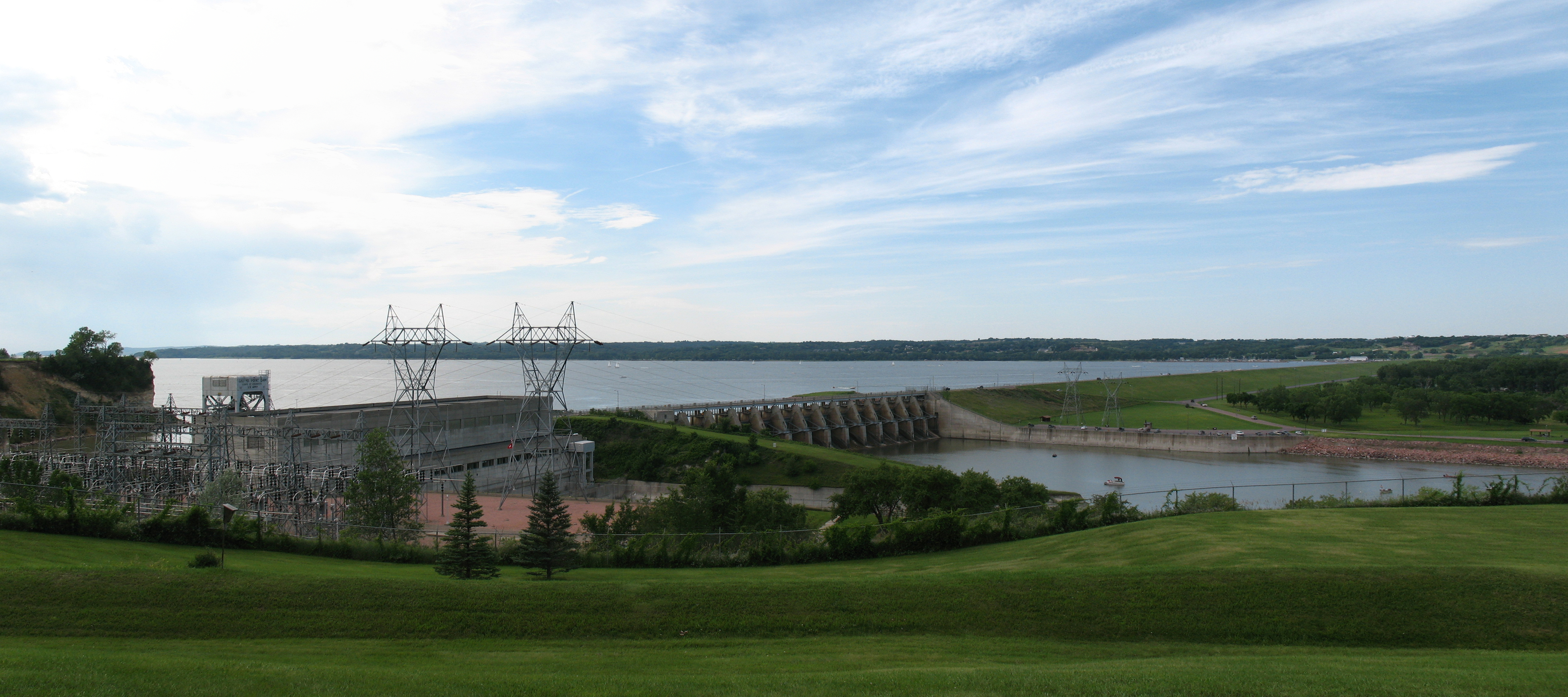 Gavins Point Dam on the Missouri River near Yankton, South Dakota as seen from the Nebraska side. It created the Lewis and Clark Lake which can bee seen in the background. This image was created with Hugin.